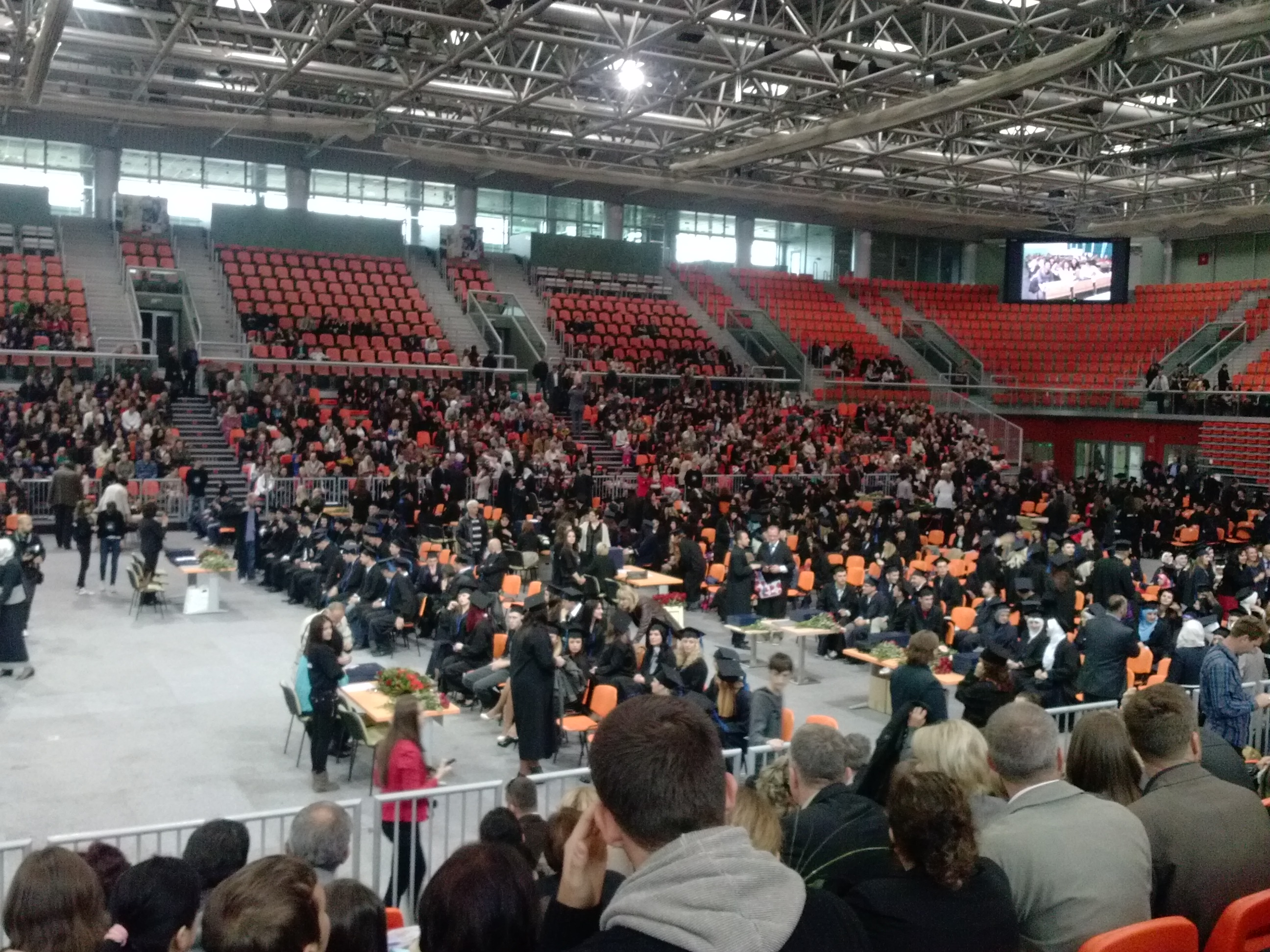 University of Zenica graduate poromotion in Arena Zenica.